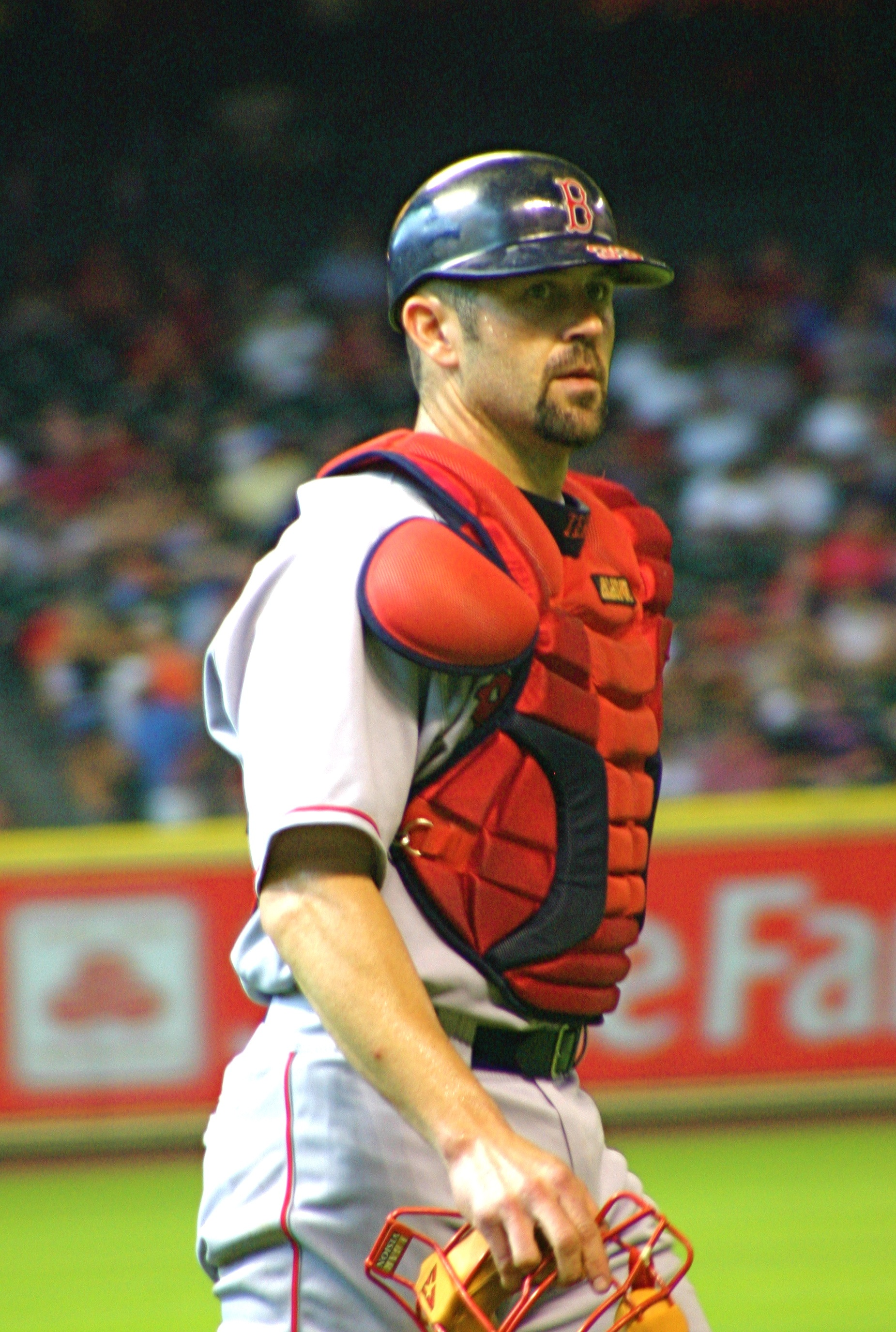 Jason Varitek 01:27, 23 July 2008 . . PhreddieH3 . . 1,851×2,753 (1.53 MB)